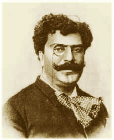 picture of Rafael Bordalo Pinheiro